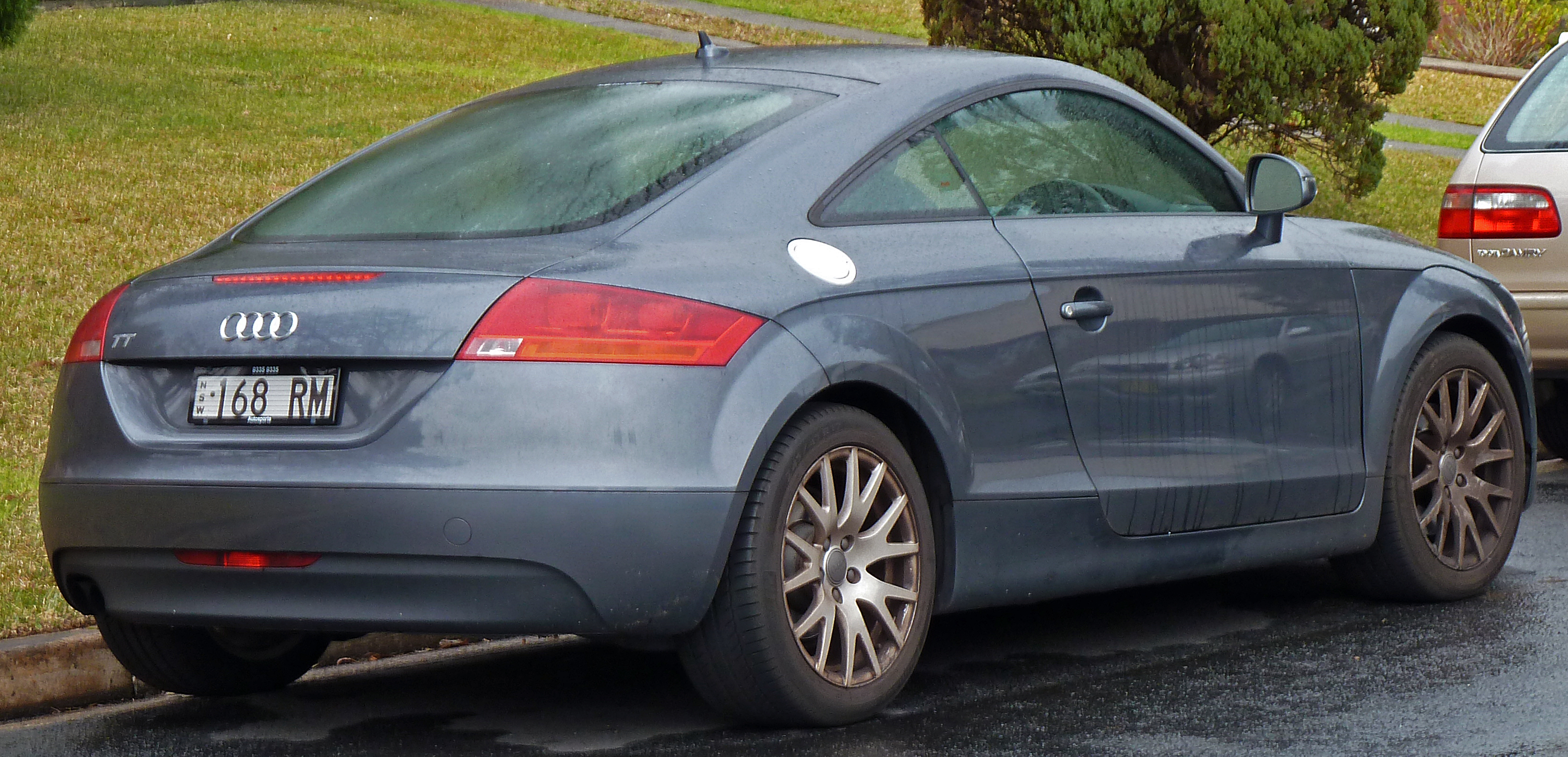 2007 Audi TT (8J) 2.0 TFSI coupe. Photographed in Gymea Bay, New South Wales, Australia.